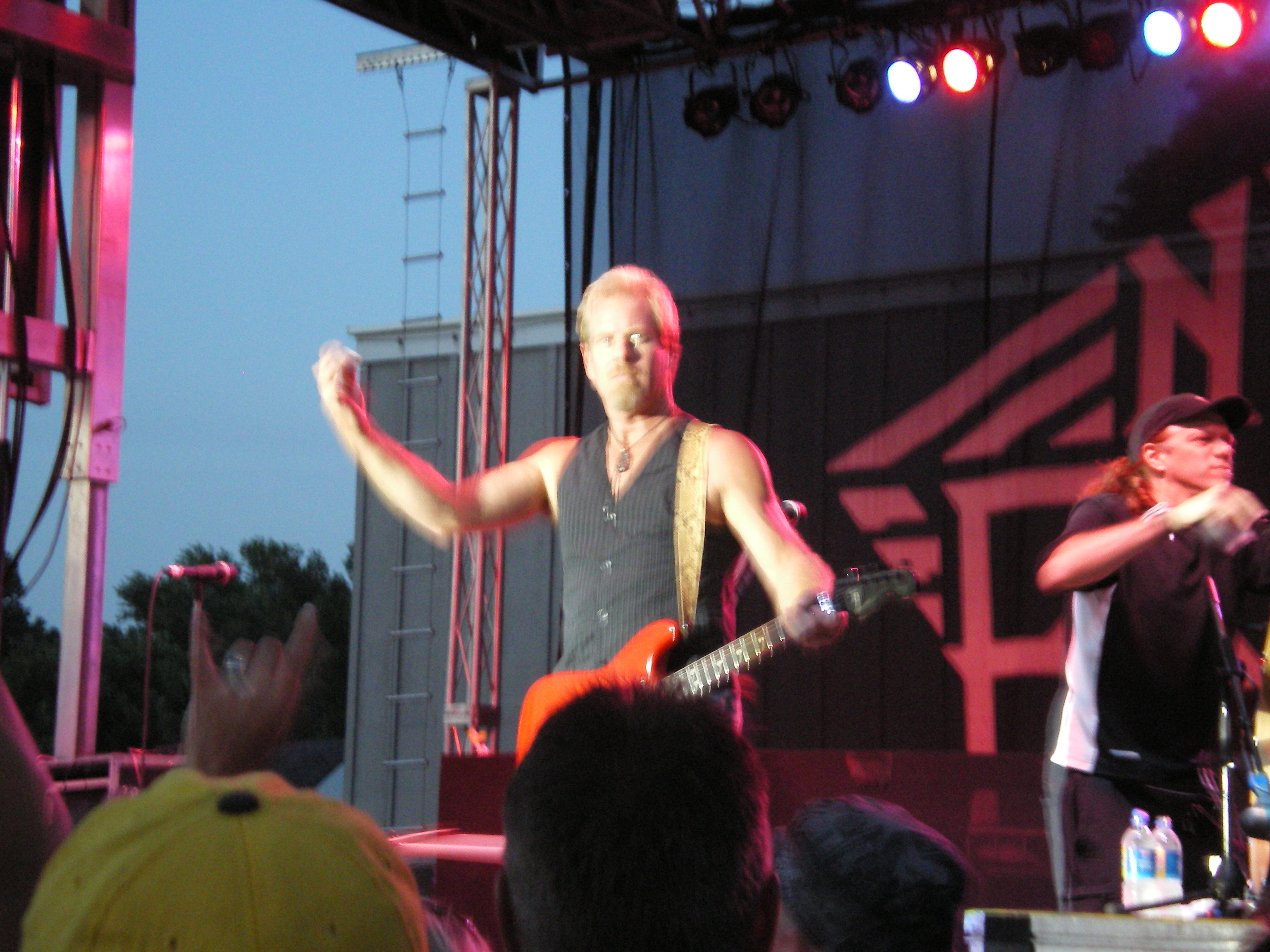 June 6, 2009 at Old Shawnee Days in Shawnee, KS.